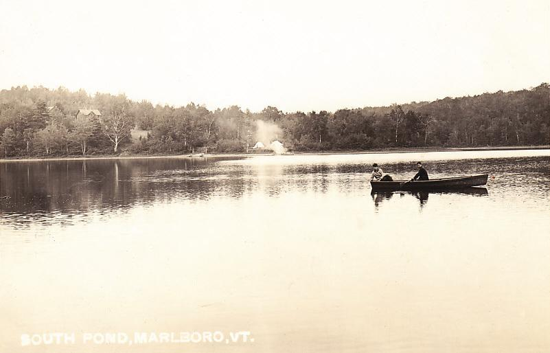 View of South Pond, Marlboro, Vermont